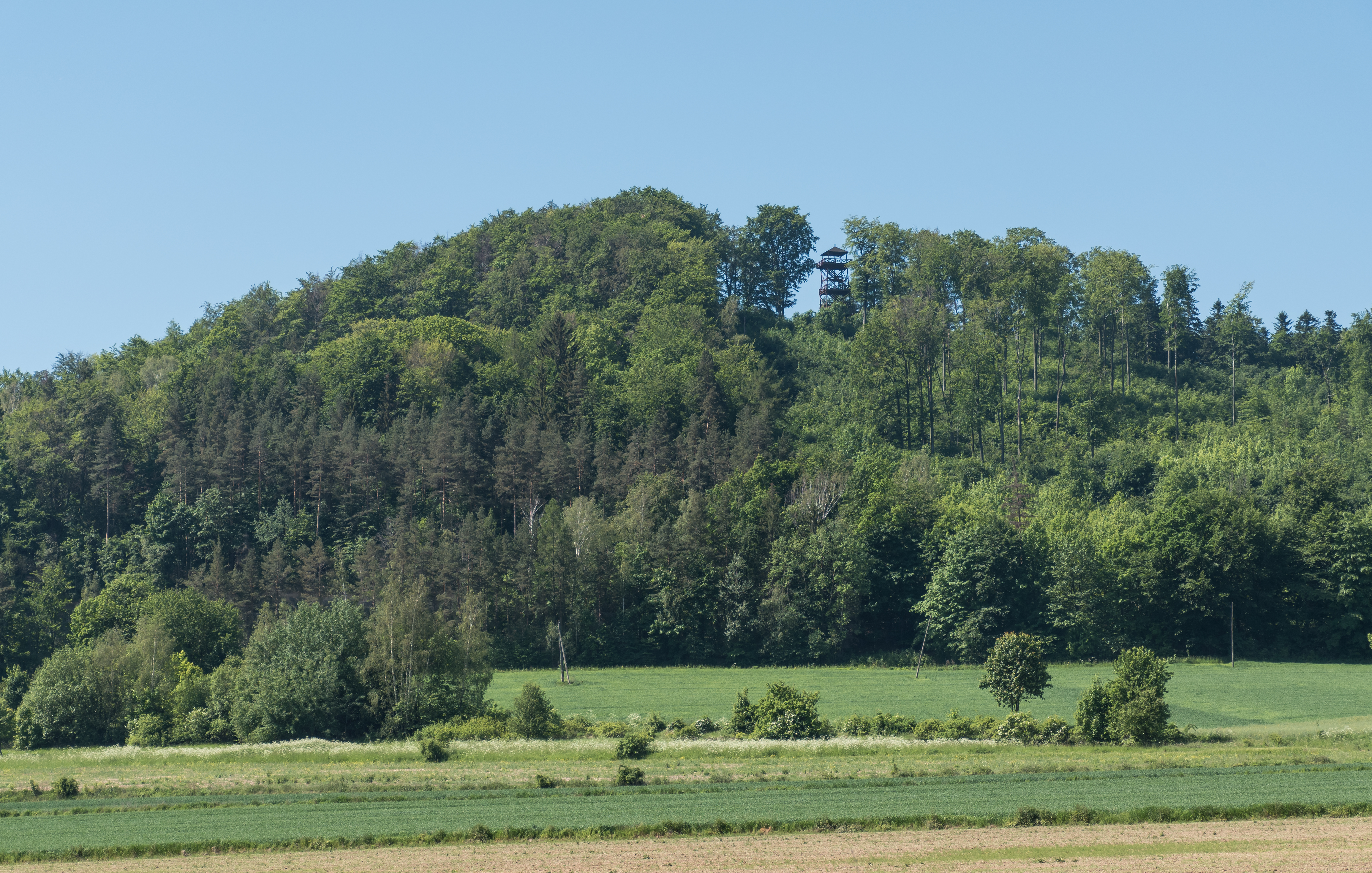 Wapniarka, Krowiarki, Sudetes